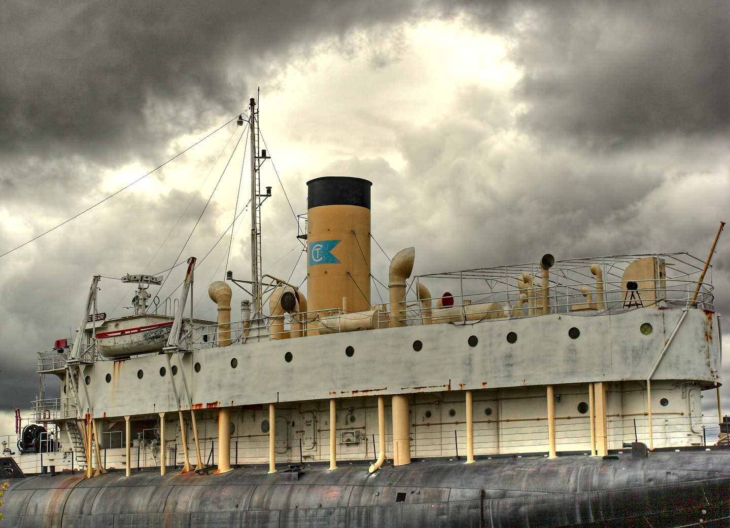 The S.S. Meteor- the "Last Whaleback on Earth!" This is the last remaining example of these innovative ships (called whalebacks for their rounded hulls) designed by Captain Alexander McDougall. Launched from Superior, Wisconsin in 1896, she carried a variety of cargos on the Great Lakes, including iron ore, grain, cars, and oil. In 1972 she was brought home to Superior and is now permanently berthed on Barkers Island.